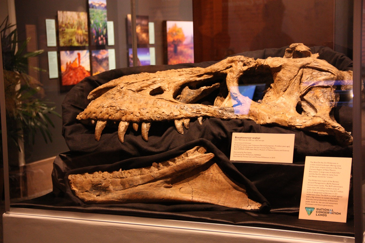 conservationlands15 Social Media Takeover, Jan 15th In 2000, Interior Secretary Bruce Babbitt linked special landscapes designated by the President or Congress into one conservation system named the National Landscape Conservation System, or National Conservation Lands. As a part of the 15th anniversary celebration this year, our National Conservation Lands team will take over the BLM’s national social media accounts on the 15th of each month. The BLM’s National Conservation Lands include a great diversity of areas - from national monuments to wild and scenic rivers to wilderness and so much more. Across 877 landscapes, and approximately 30 million acres, we conserve, protect, and restore these nationally-significant landscapes that have outstanding cultural, ecological, and scientific values for the benefit of current and future generations. So, what’s our plan for the #conservationlands15 days? We’ll include the landscape photos that you know and love. We’ll include fossil discoveries and scientific research, employee and intern profiles, cool wildlife information, and other happenings on our lands throughout the year. And, we’ll probably throw in a little history and trivia, too! By the end of the year, you’ll know the difference between a scenic and an historic trail. You’ll understand how we conserve your public lands, and how you can get involved in those conservation efforts. We hope that you’ll follow along and enjoy the experience as we do each day here on the BLM’s National Conservation Lands! Bisti Beast at the Smithsonian Museum of Natural History for Wilderness50, discovered in BLM New Mexico Bisti/De-Na-Zin Wilderness, by Lissa Eng